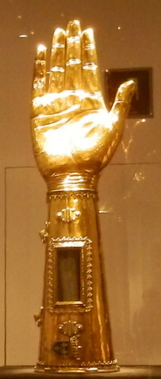 Located at Cathedral Treasury in Aachen.